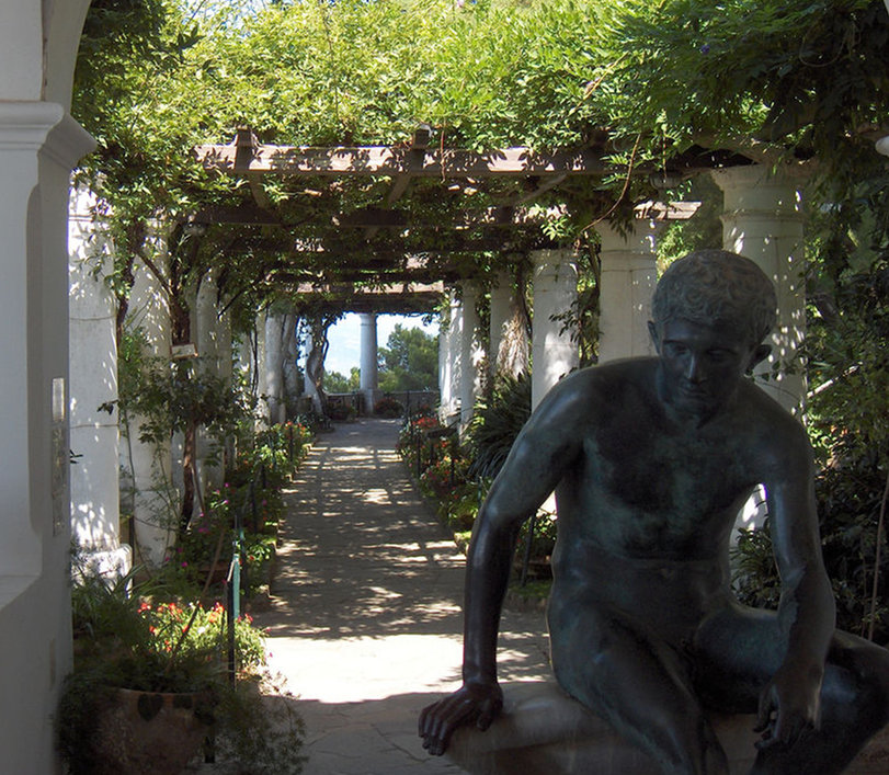 The Pergola at Axel Munthe's Villa San Michele on Capri island, Italy